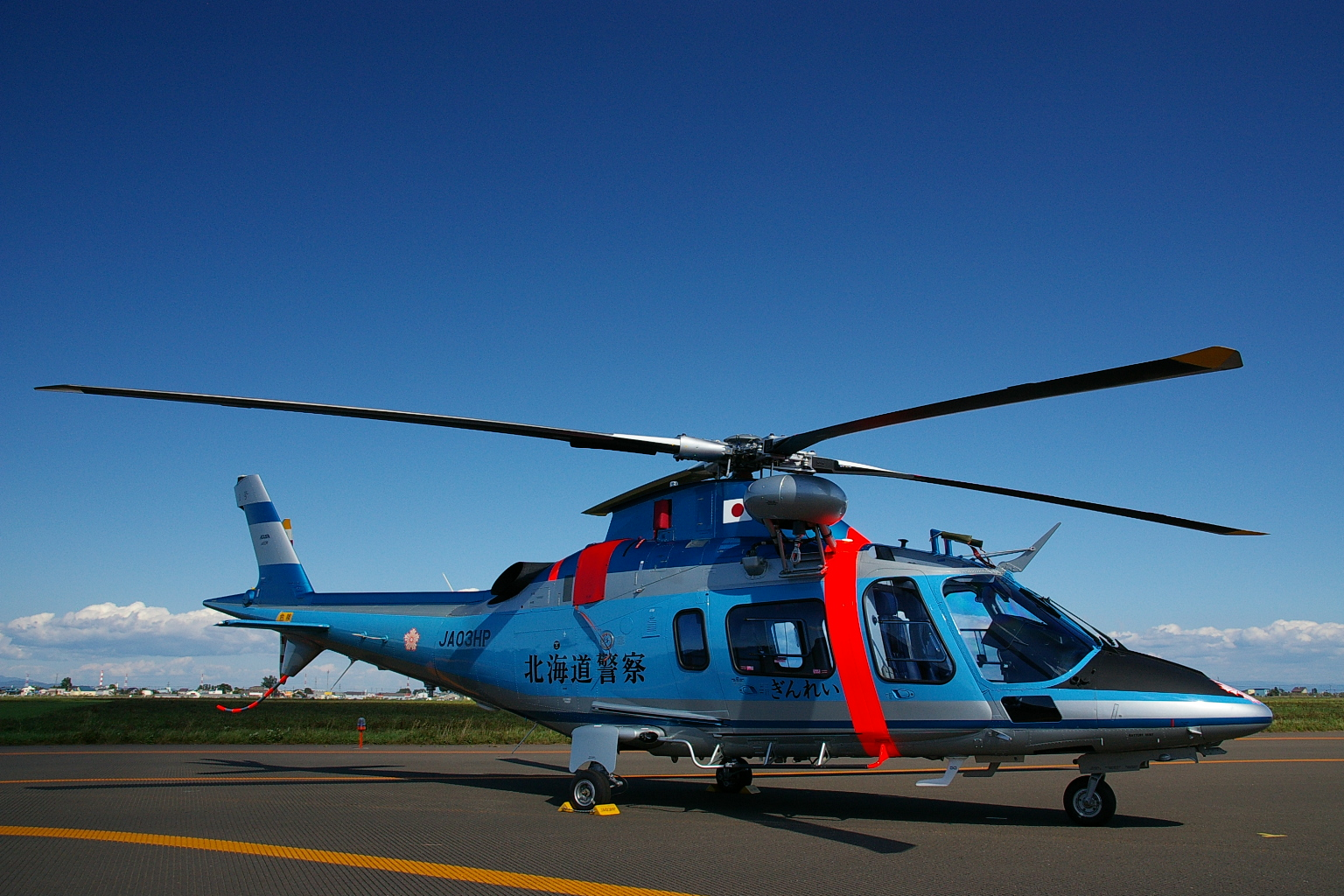 Agusta A109 Hokkaido police Ginrei 1.